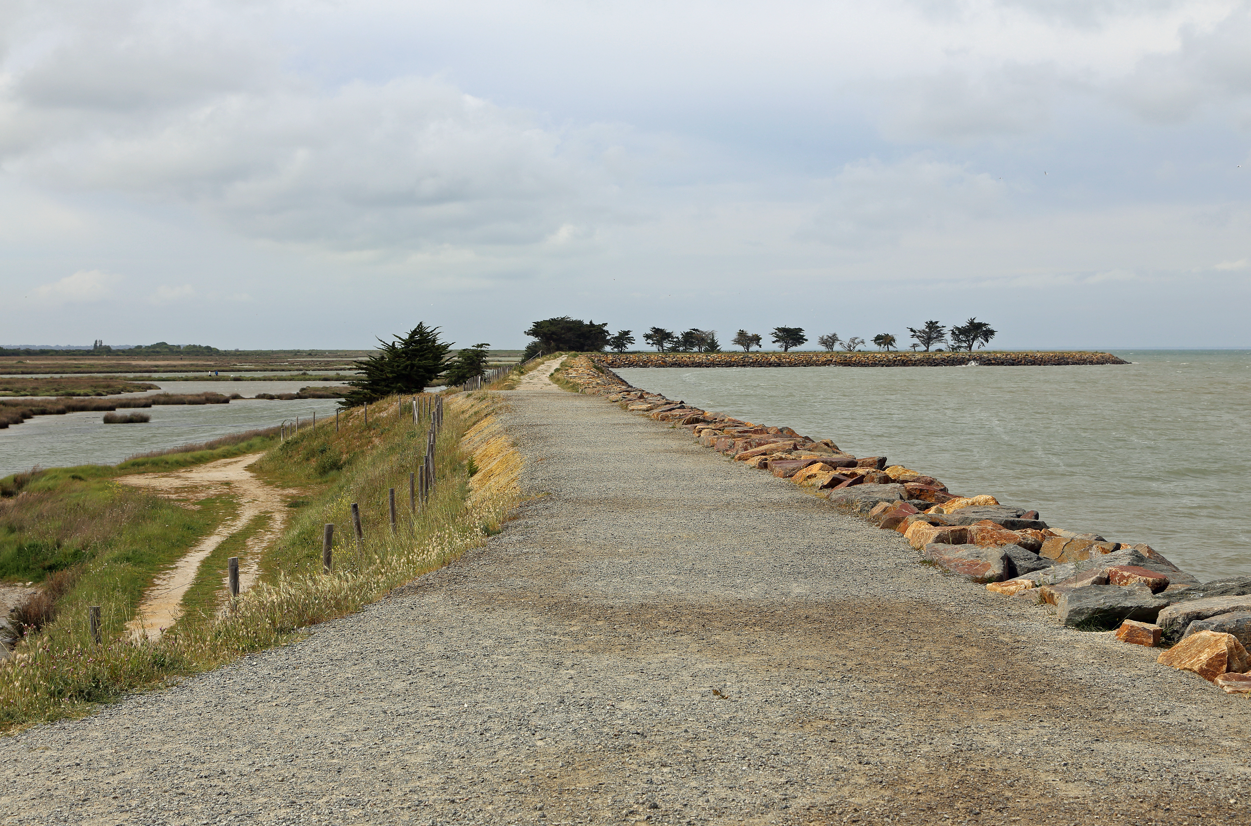 Noirmoutier Island (Vendée department, France): dike of the regional nature reserve Polder de Sébastopol